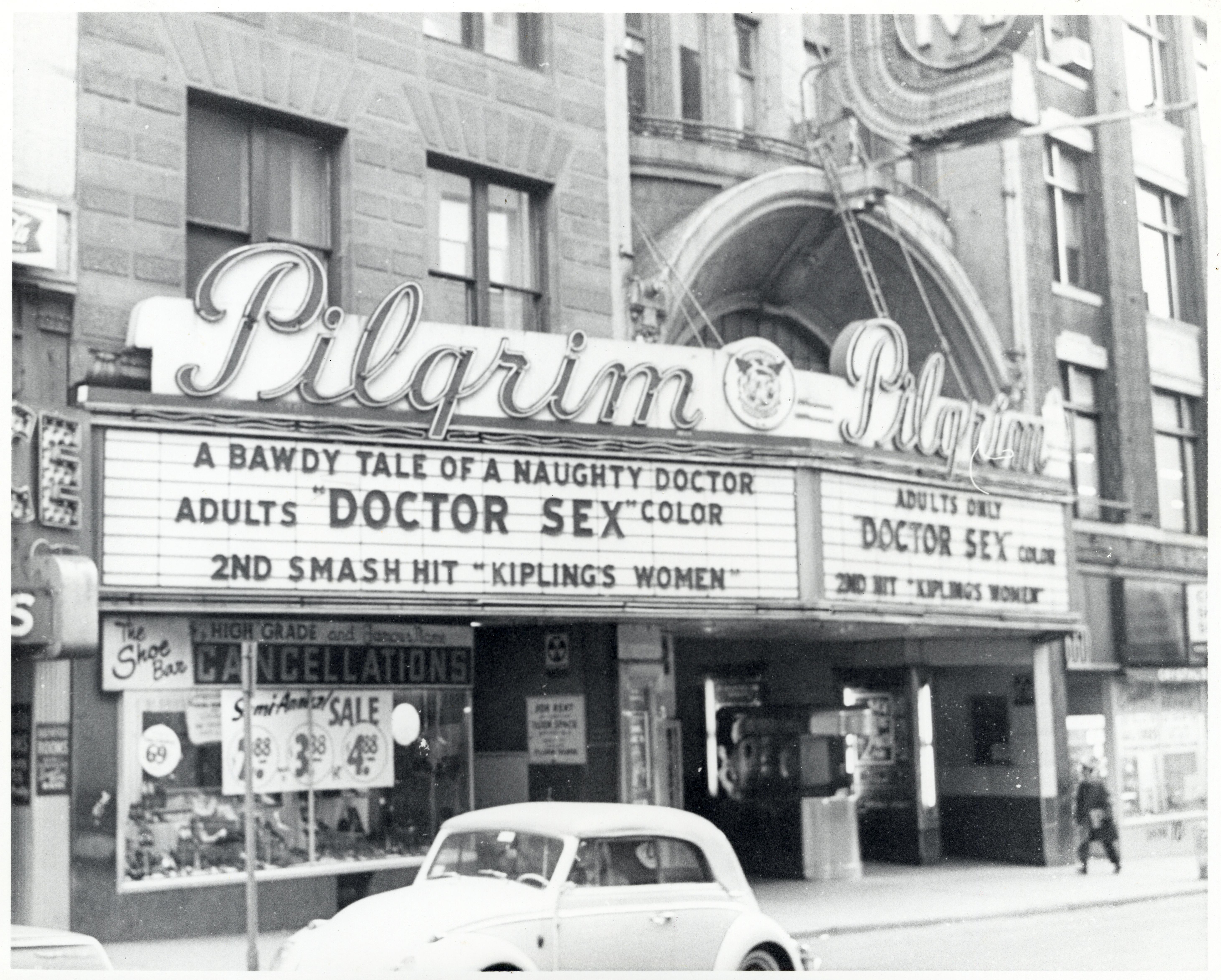 Title: Marquee at Pilgrim Theatre on Washington Street showing the film Dr. Sex (1964). Creator: City Censor, City of Boston Date: 1965 January 7 Source: City Censorship Files, Mayor John F. Collins records, Collection #0244.001 File name: 244001_0457 Rights: Copyright City of Boston Citation: Mayor John F. Collins records, Collection #0244.001, City of Boston Archives, Boston